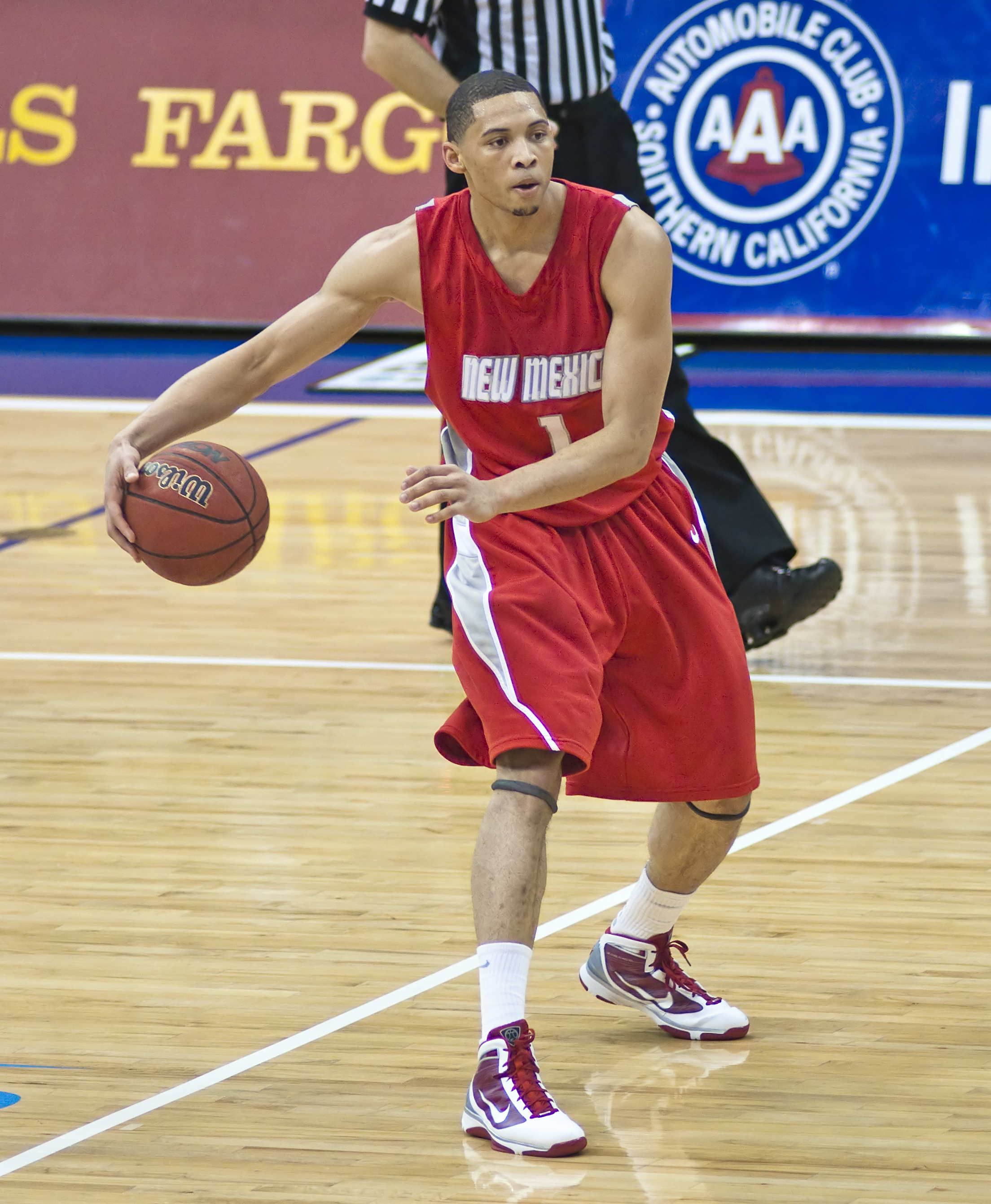 Darlington Hobson, University of New Mexico basketball player